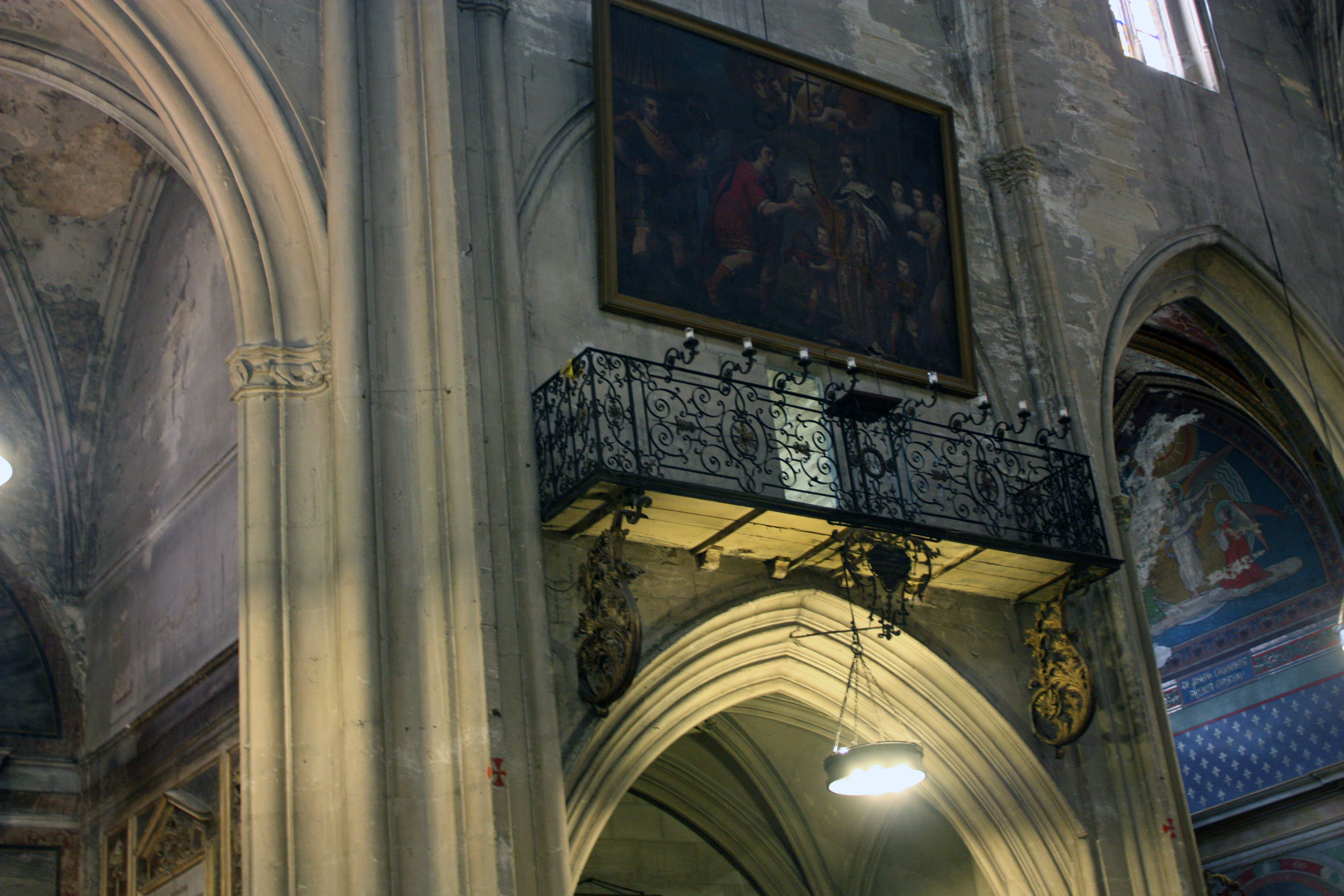 Bodyguard of wrougth iron for the bishops' tribune on the Saint Siffridus Church, former Carpentras Cathedral.